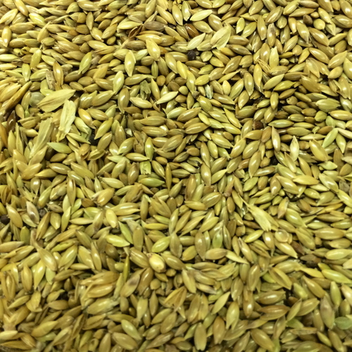 Green Flaxseed